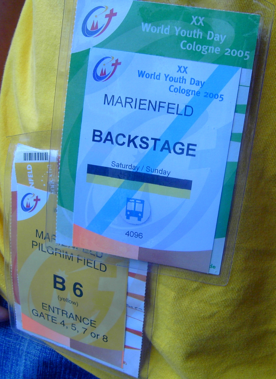 A backstage pass for Marienfeld, WJT2005.